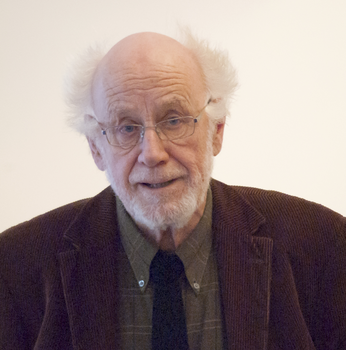 Ronny Ambjörnsson during a literary lecture in Helsinki 2013